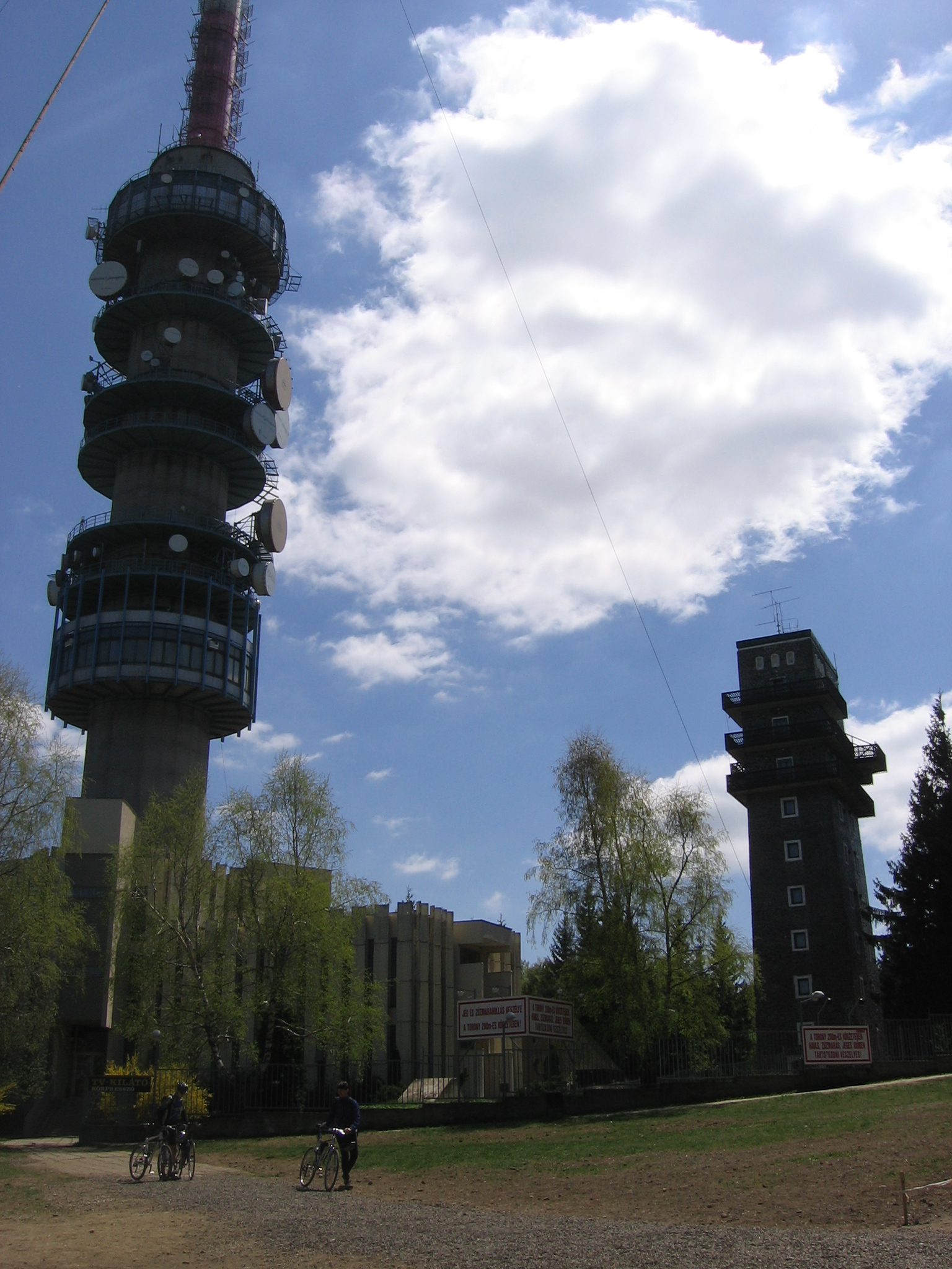 A tall hotel building and a TV tower on the peak of Mount Kékes, Hungary Wieża TV i hotel na szczycie Kékes